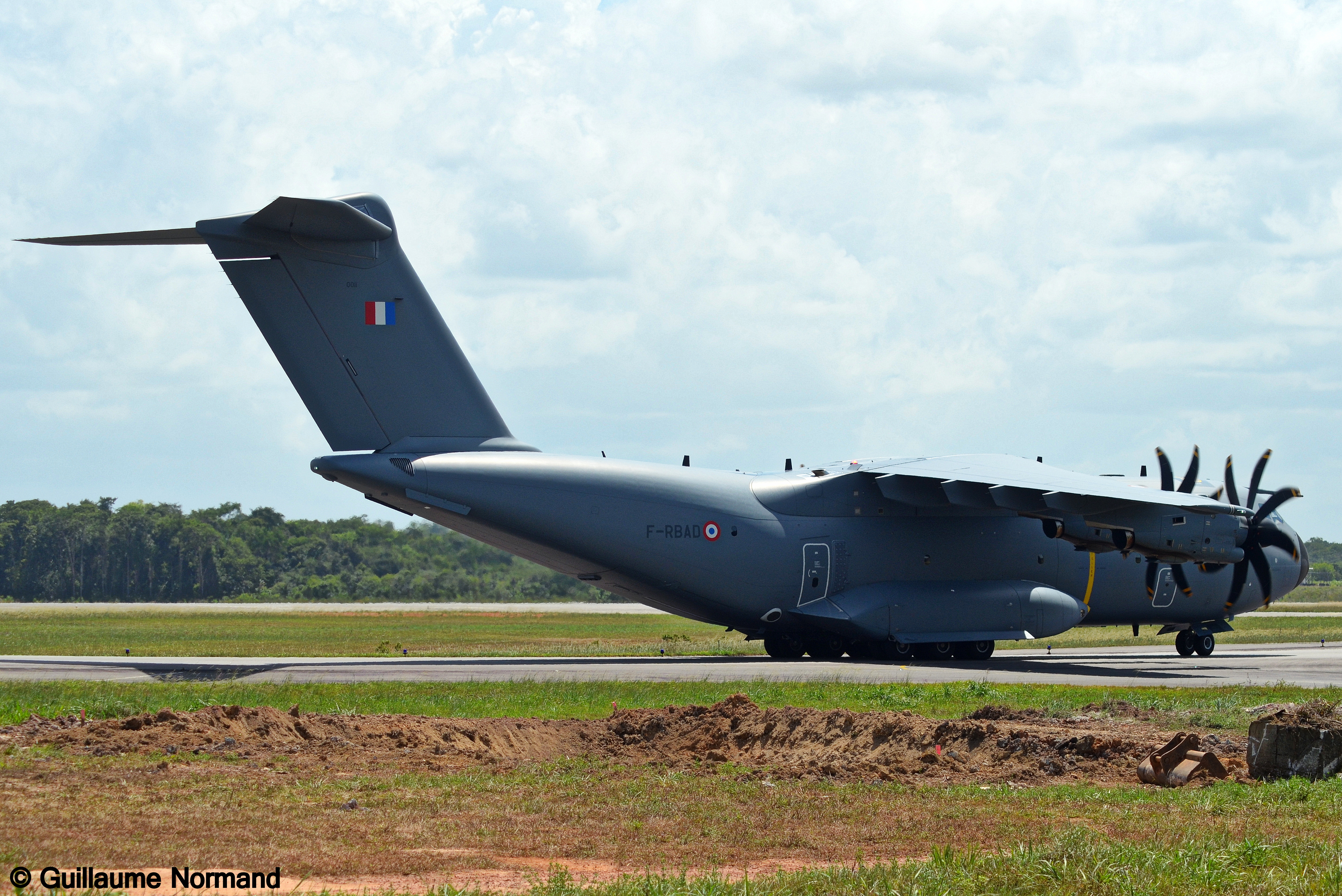 French Air Force Airbus A400M (F-RBAD) at Cayenne-Rochambeau Airport